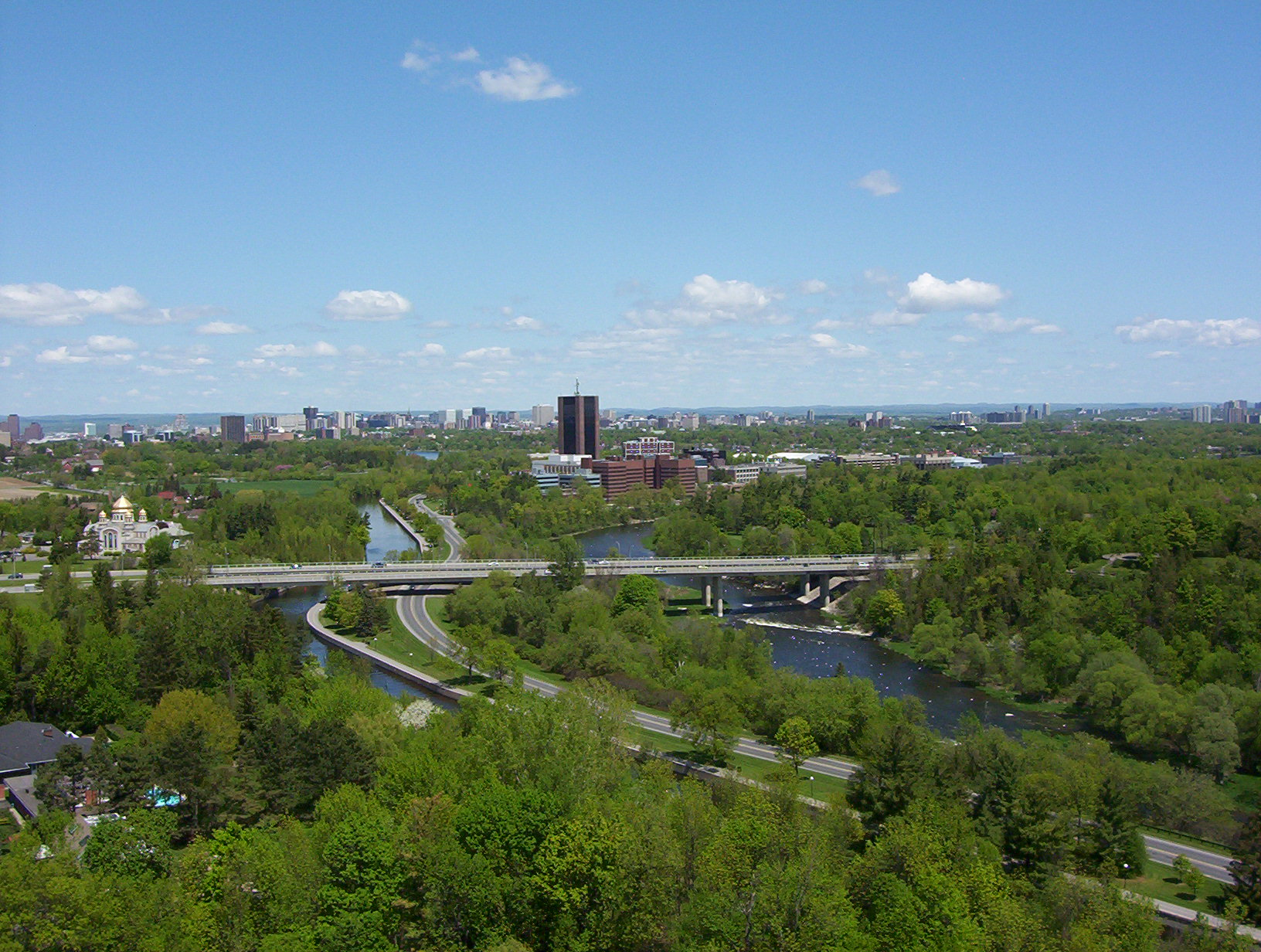 Carleton University from the south. Taken by Kris BARBARA on 18, May 2007.